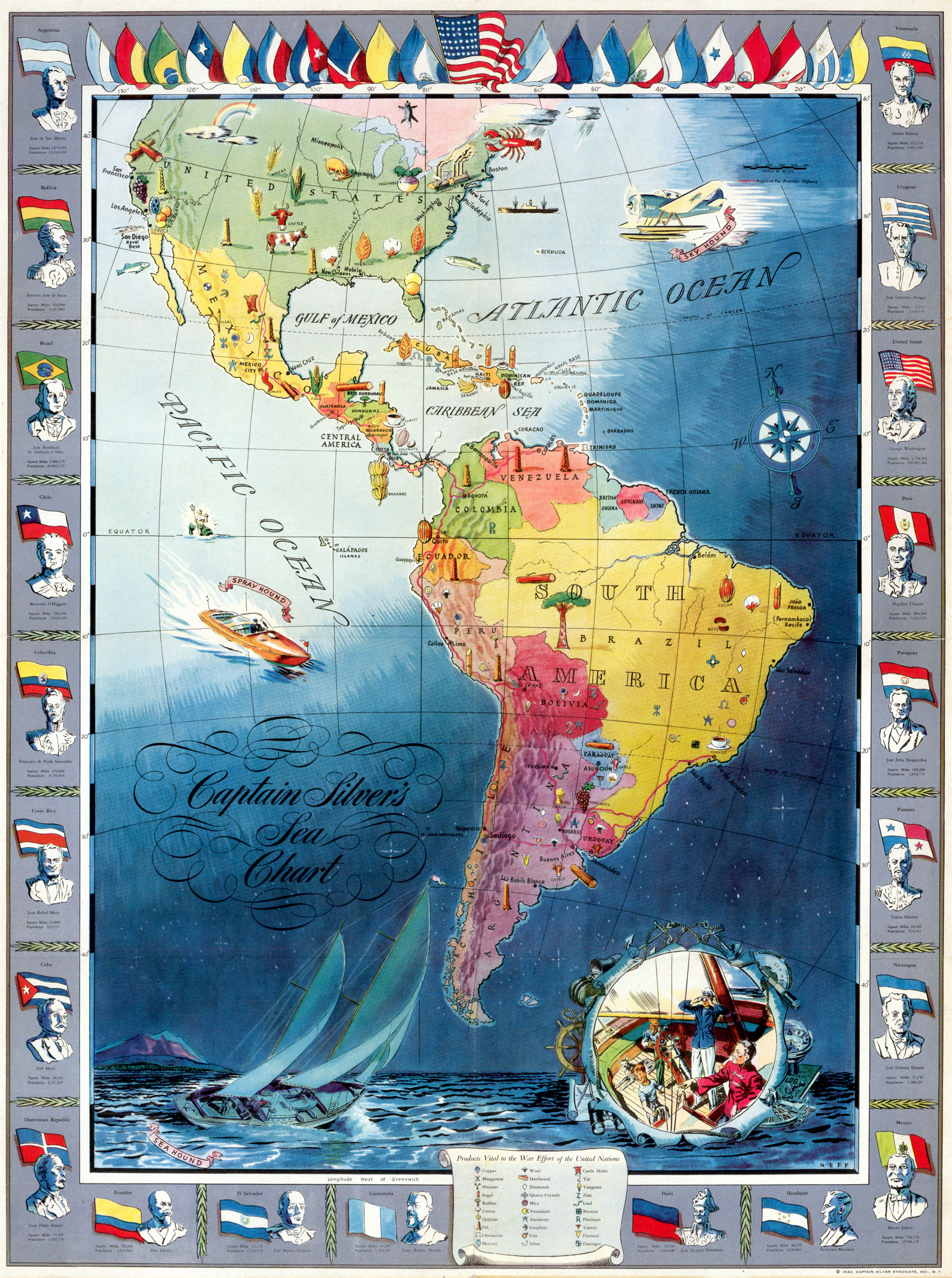 Poster for the Blue Network radio program The Sea Hound, produced in association with the Office of the Coordinator of Inter-American Affairs